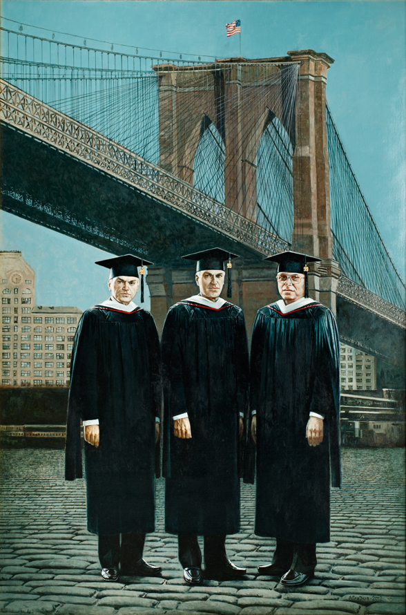 A painting by Aleksei Gladkov from the Laiho Trio when they graduated for the master´s degrees in New York. Oil 180 x 120 cm. Photo by Arto Helin Studio.